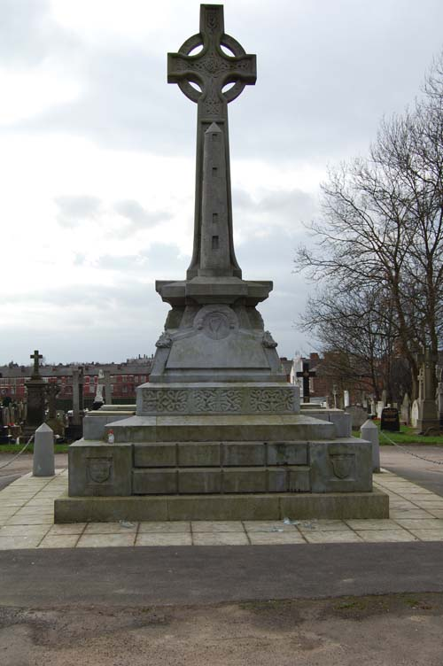 This monument, raised by public subscription, was erected to the memory of the Manchester Martyrs and stands in the Roman Catholic Cemetery in Moston, North Manchester, England,UK. See wikipedia article entitled Manchester Martyrs.